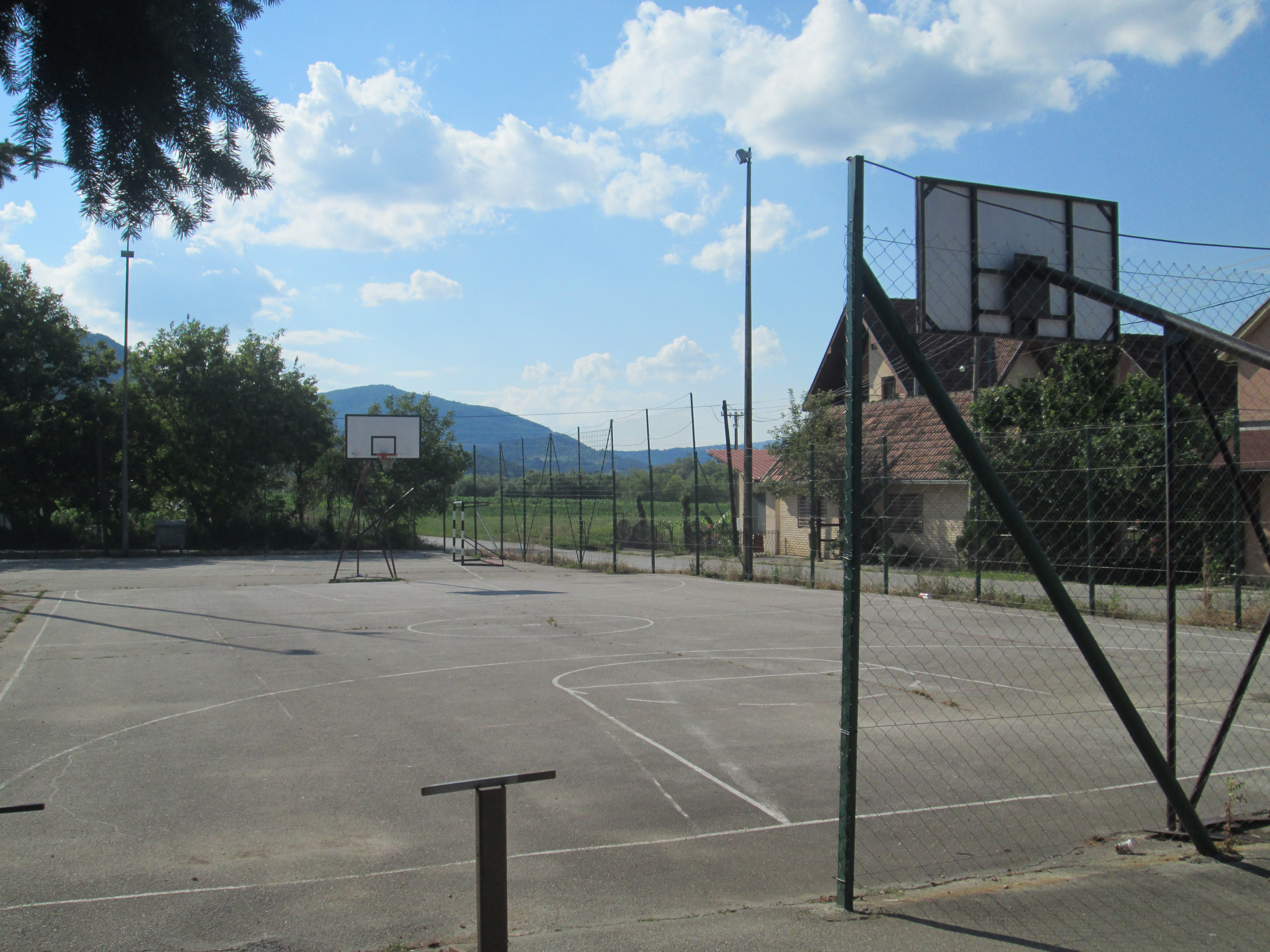 Schoolyard, Zlakusa Српски (ћирилица): Школско двориште, Злакуса